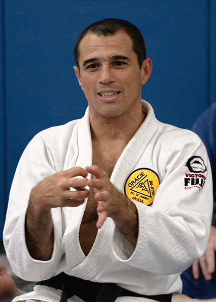 Royler Gracie giving a Gracie Jiu-Jitsu seminar, sponsored by Marcelo Alonso, at Fife High School. Shot for NW Fight Scene Magazine.